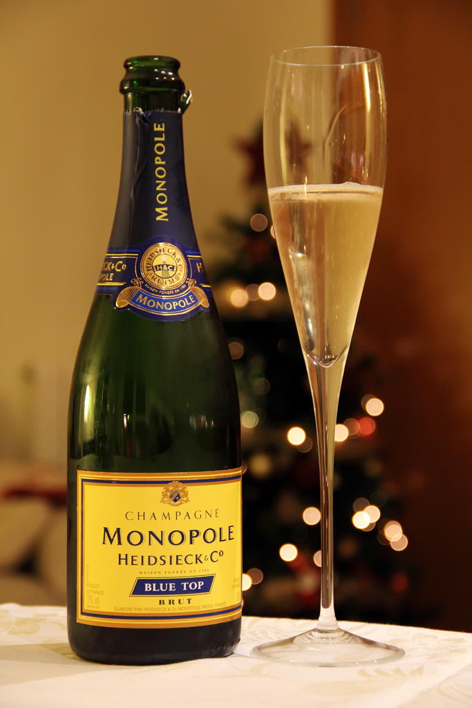 Champagne from the French producer Monopole Heidsieck & Co served in a tulip champagne flute